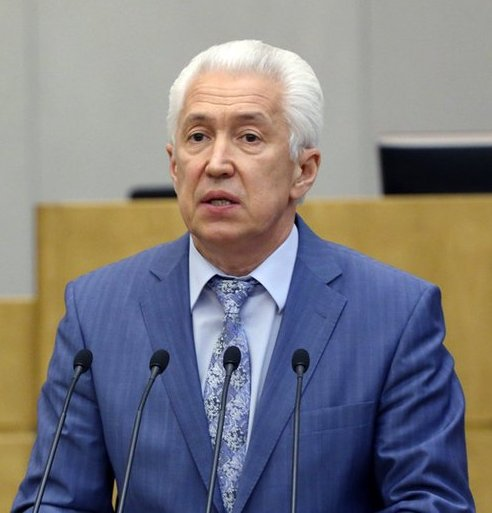 Remarks by Deputy State Duma Speaker Vladimir Vasilyev, head of the United Russia parliamentary group.